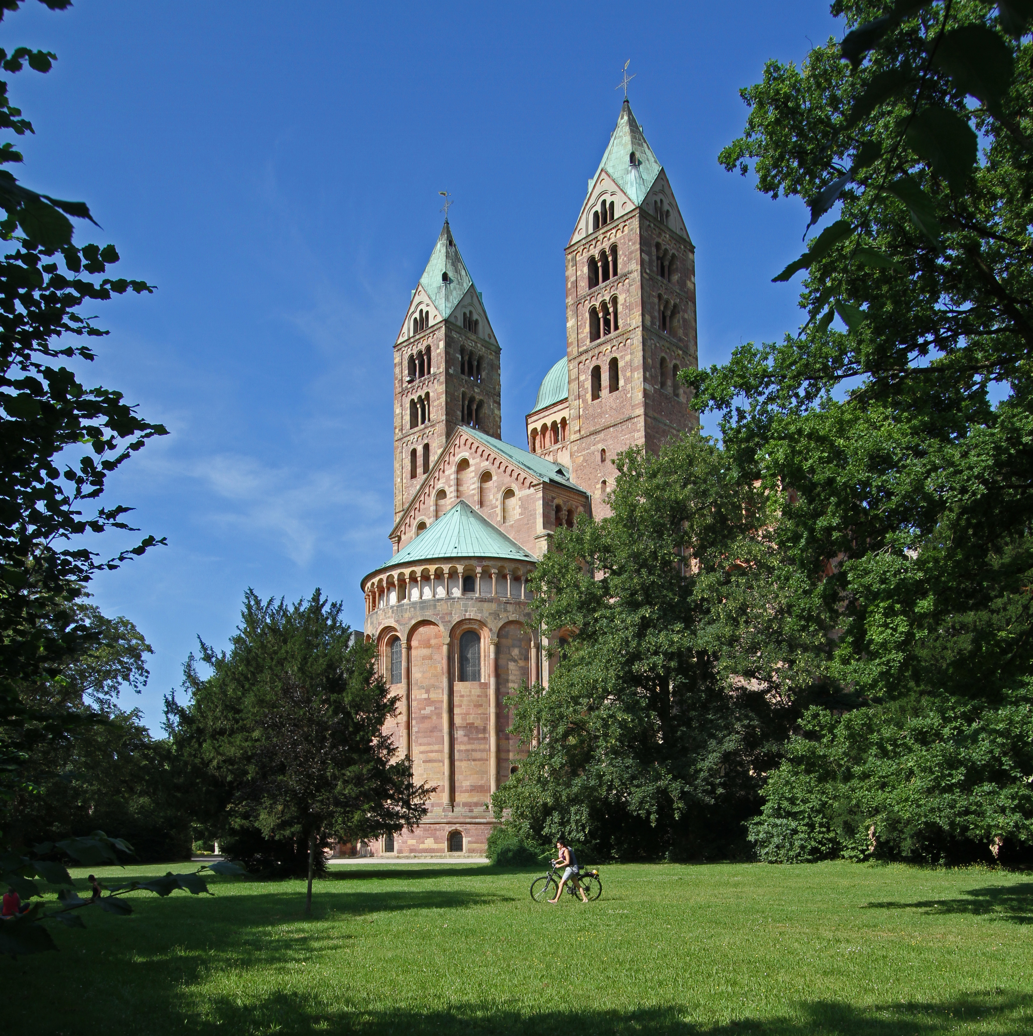 Speyer cathedral